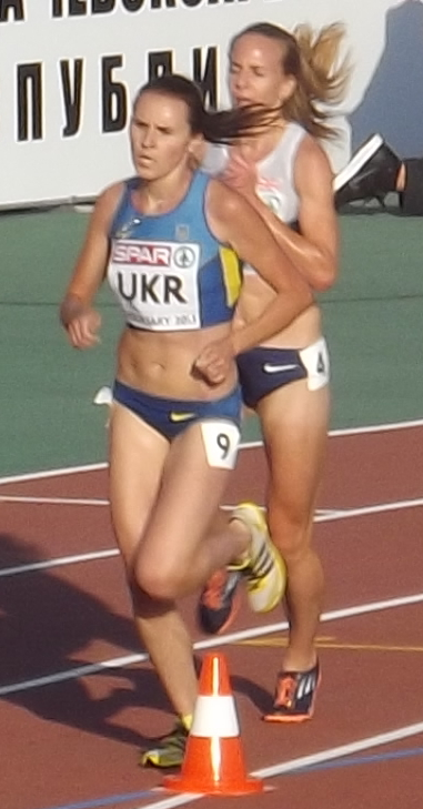 Mariya Shatalova competing at the 2015 European Team Championships